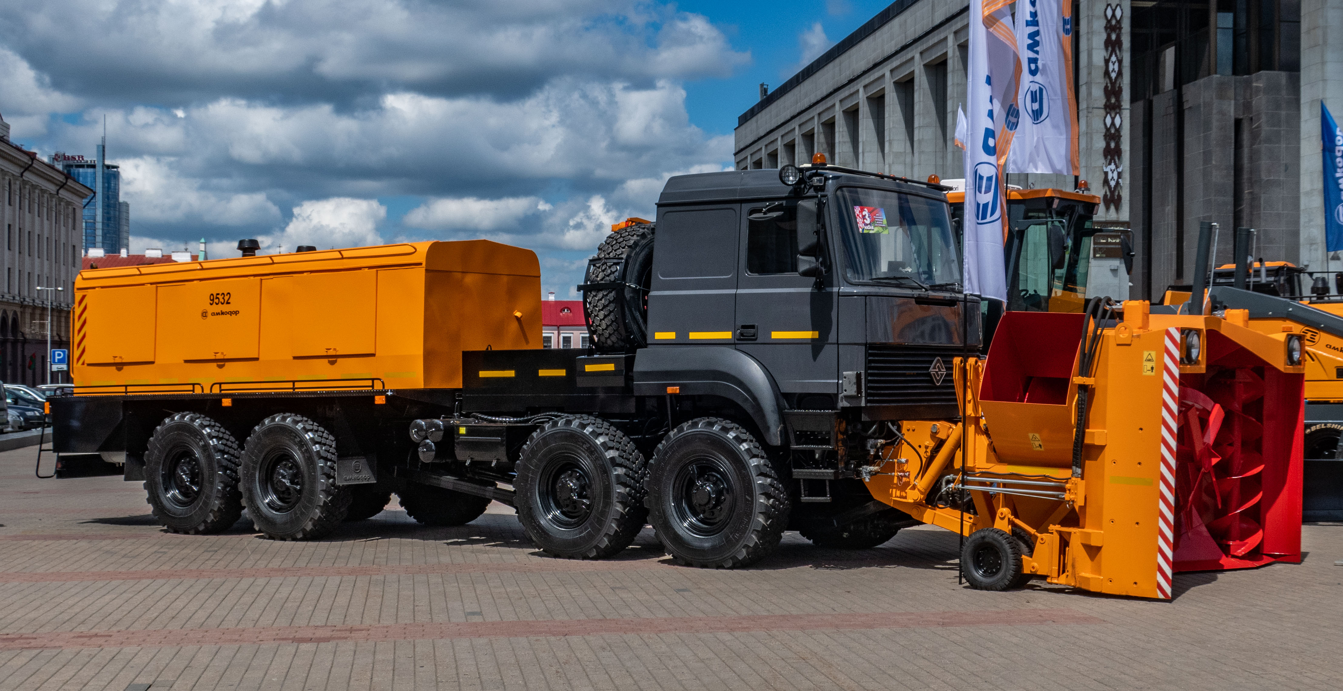 Amkodor 9532 snow blower. Minsk, Belarus